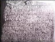 Colorized version of an ancient Wadaad's Writing Stone tablet - Somalia Museum